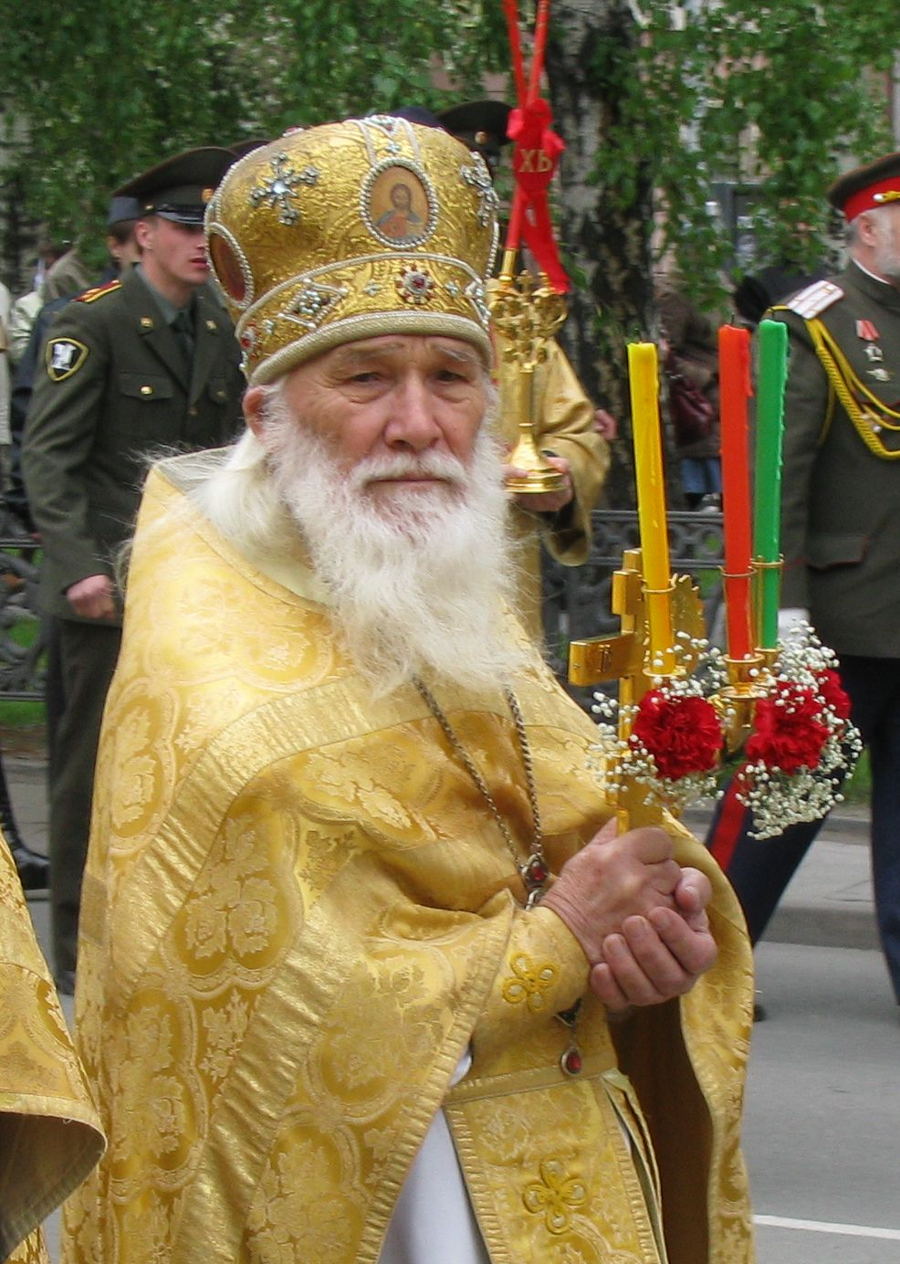 Easter Cross Procession in Novosibirsk. Priest holding the Paschal candlestick used in the Russian Orthodox Church.